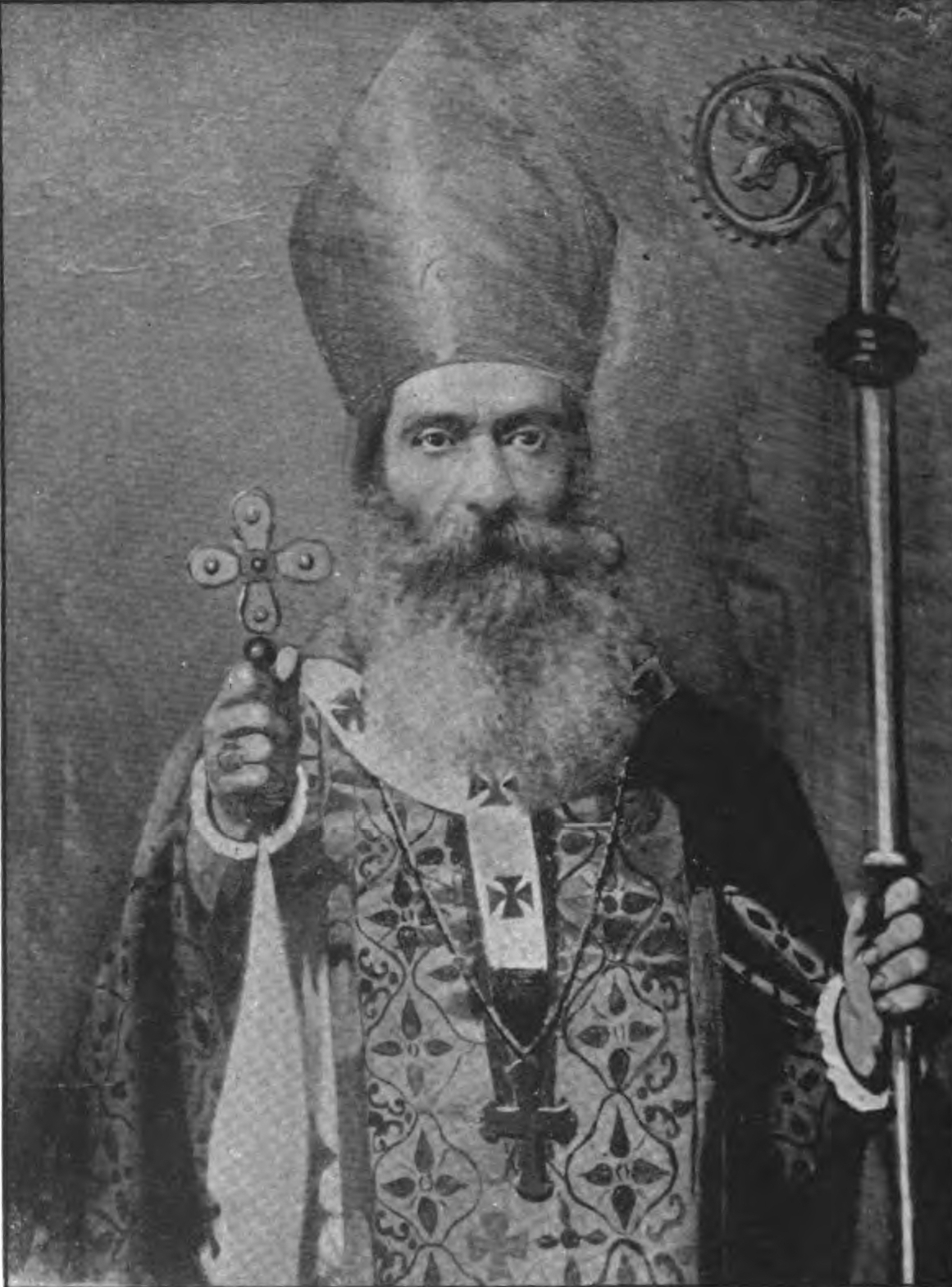 Ignace Michael III Jarweh, Patriarch of the Syrian Catholic Church